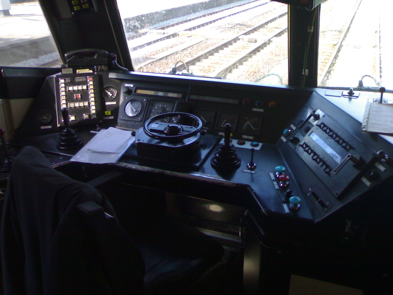 Drivers desk in 1184